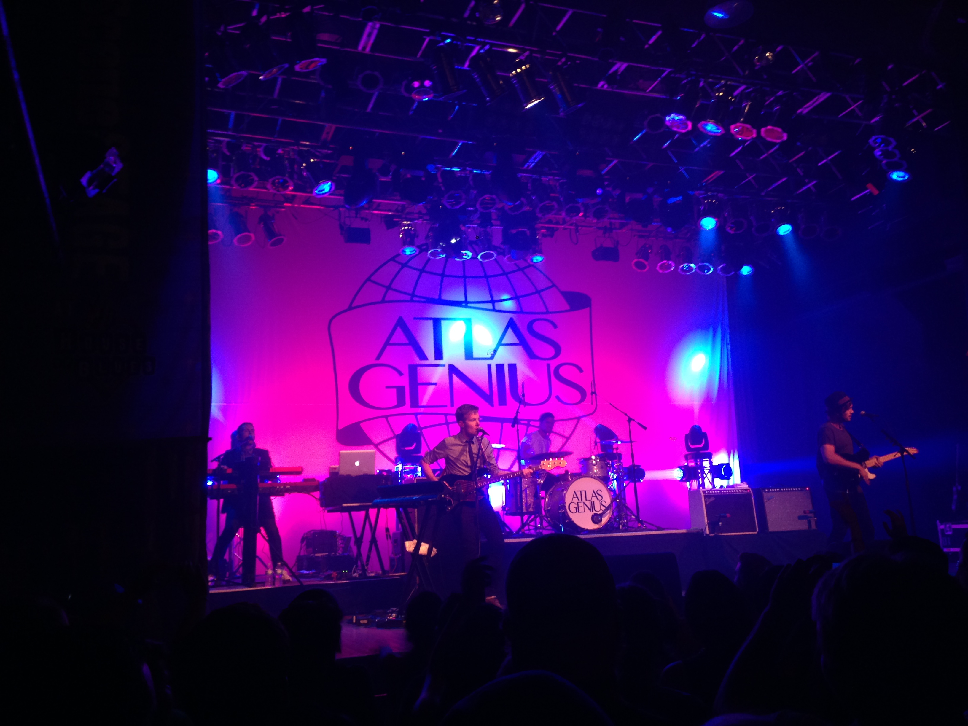 Atlas Genius performing at the House of Blues in Cleveland, OH, October 2013